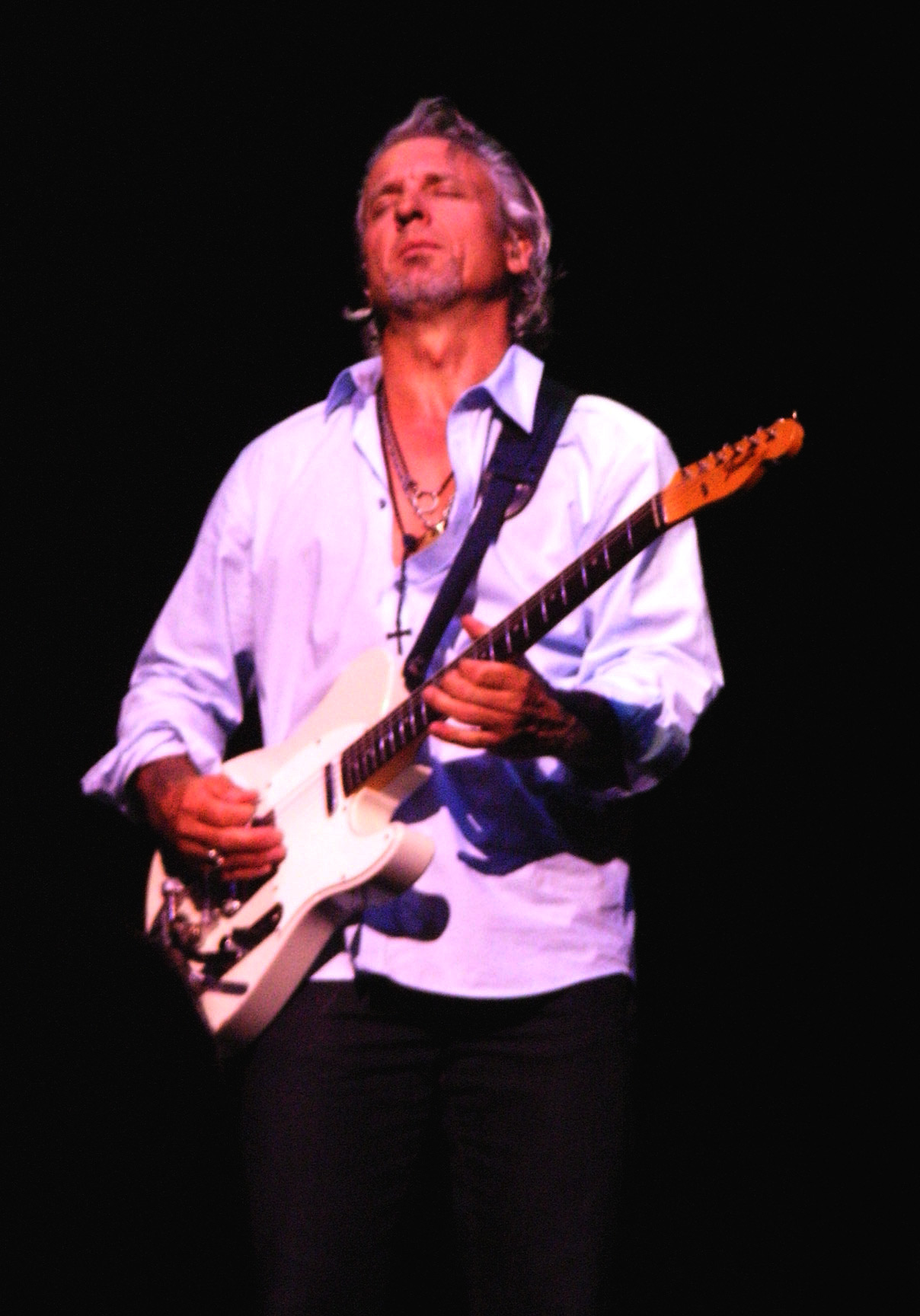 Neil Giraldo, lead guitarist for Pat Benatar performing live in Sydney. 22 Oct 2010.